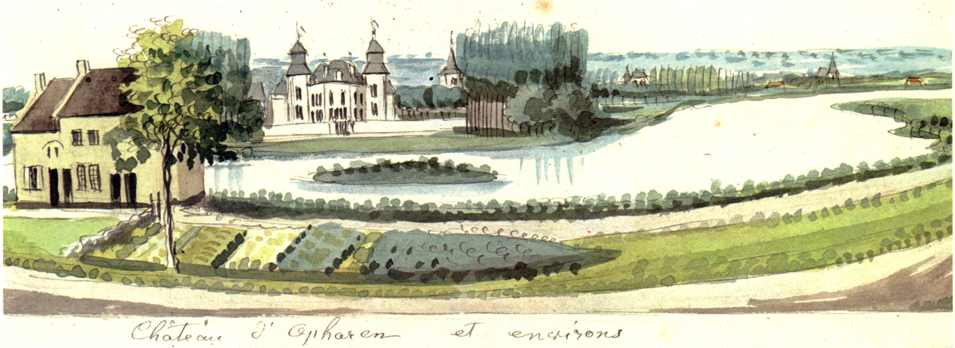 View of the river Meuse and Borgharen Castle, near Maastricht, the Netherlands. Drawing by Philippus van Gulpen (c 1840-60)